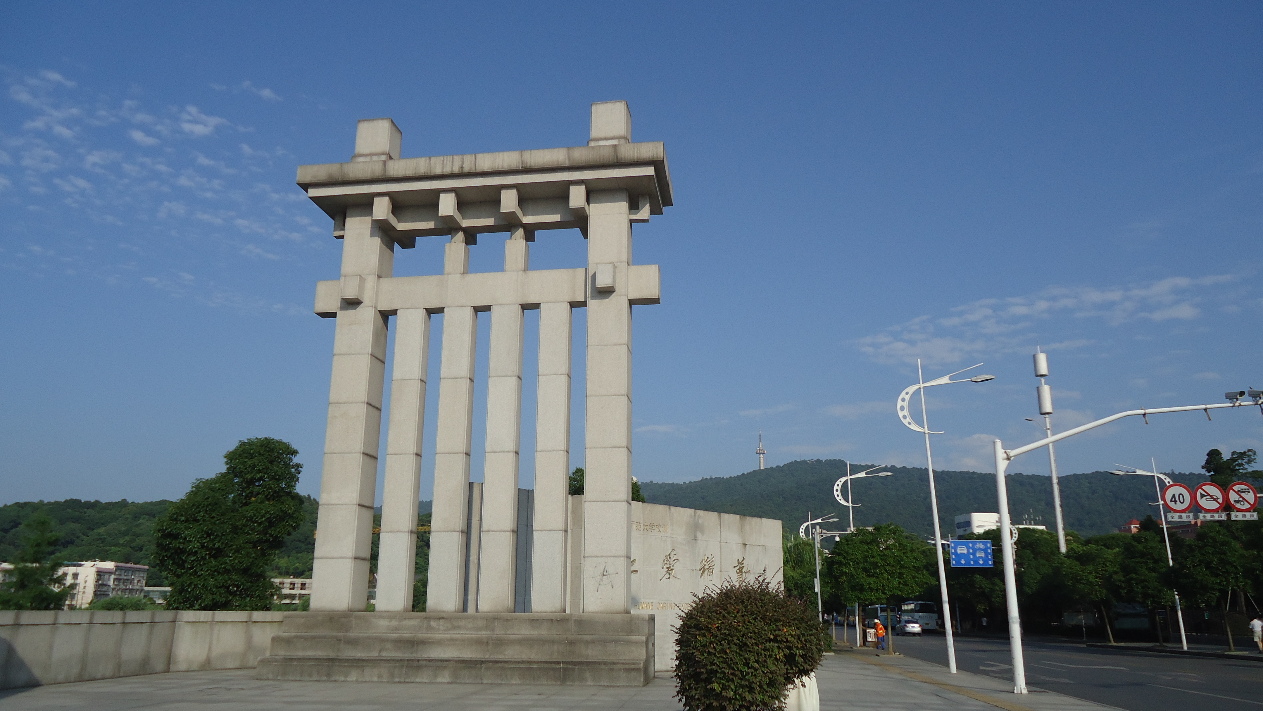 Hunan Normal University,founded in 1938, is a higher education institution located in Changsha, Hunan Province, People's Republic of China. The University is a national 211 Project university, one of the country's 100 key universities in the 21st century that enjoy priority in obtaining national funds.